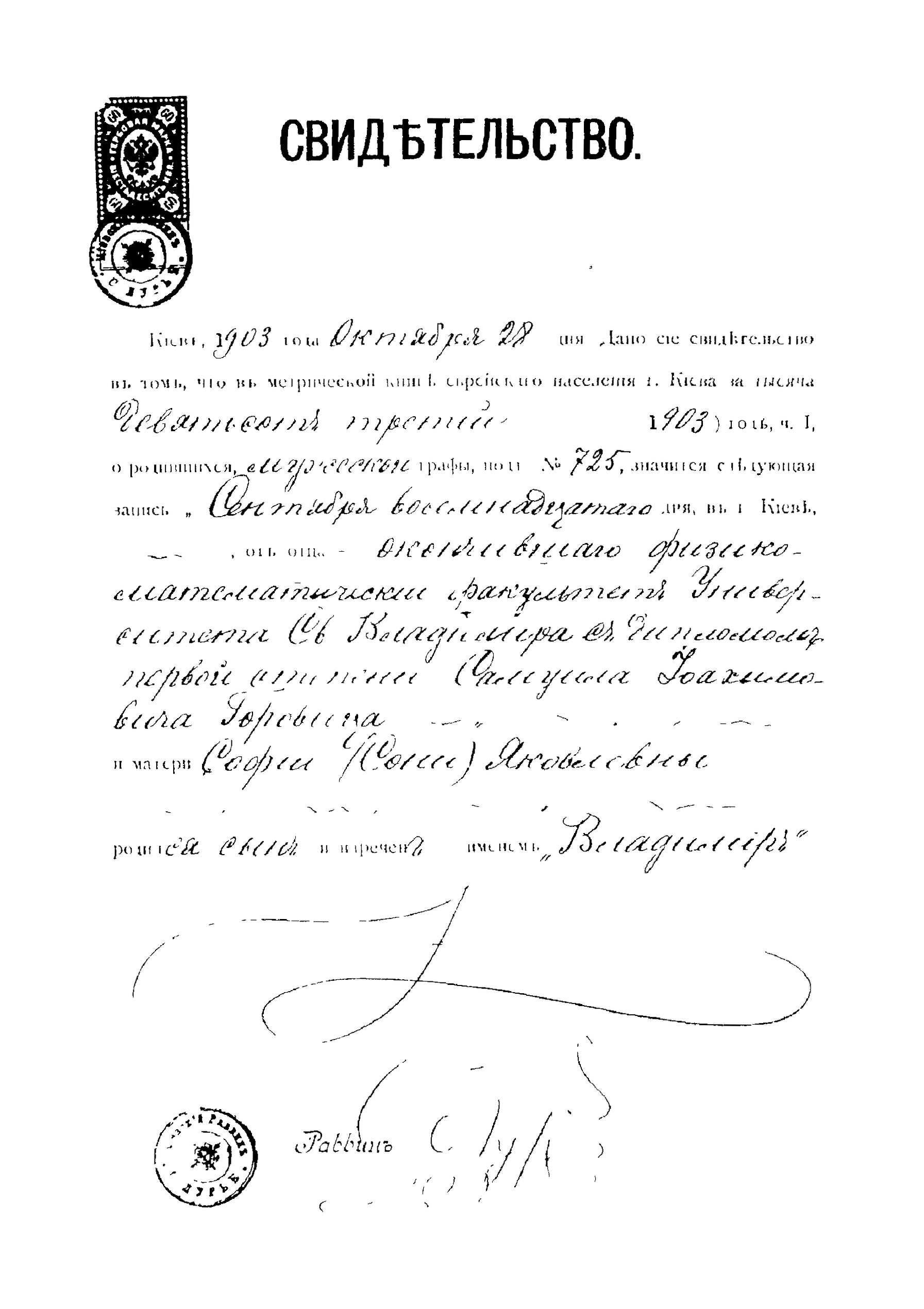 Birth certificate of Vladimir Horowitz. CERTIFICATE. Kiev, October 28, 1903. This is to certify, that the following record is present in the register of the Jewish population of the city of Kiev for the year nineteen hundred three / 1903 / part 1, of those born of the male column, #725: "September 18, in Kiev, from father Samuil Ioachimovich Gorovits, who graduated from the physical-mathematical department of St. Vladimir University, and mother Sofia / Sonya / Yakovlevna, a son was born and named "VLADIMIR." Seal of Kiev rabbi. Rabbi / S. Lurie / #3736 Note: the surname Horowitz is spelled Горовиц and pronounced "Gorovits" in Russian.